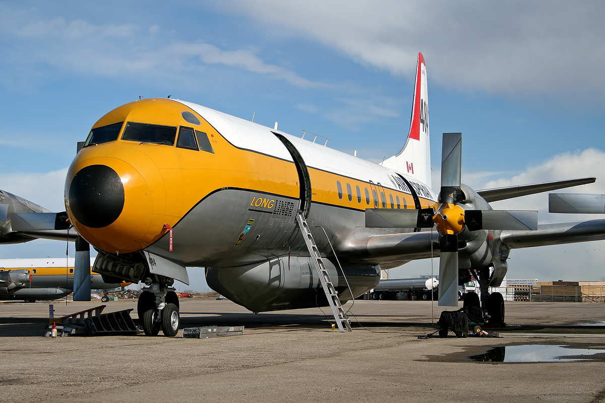 An Air Spray Lockheed L-188C Electra at the Air Spray ramp after Maintenance, being prepared for a test-flight.